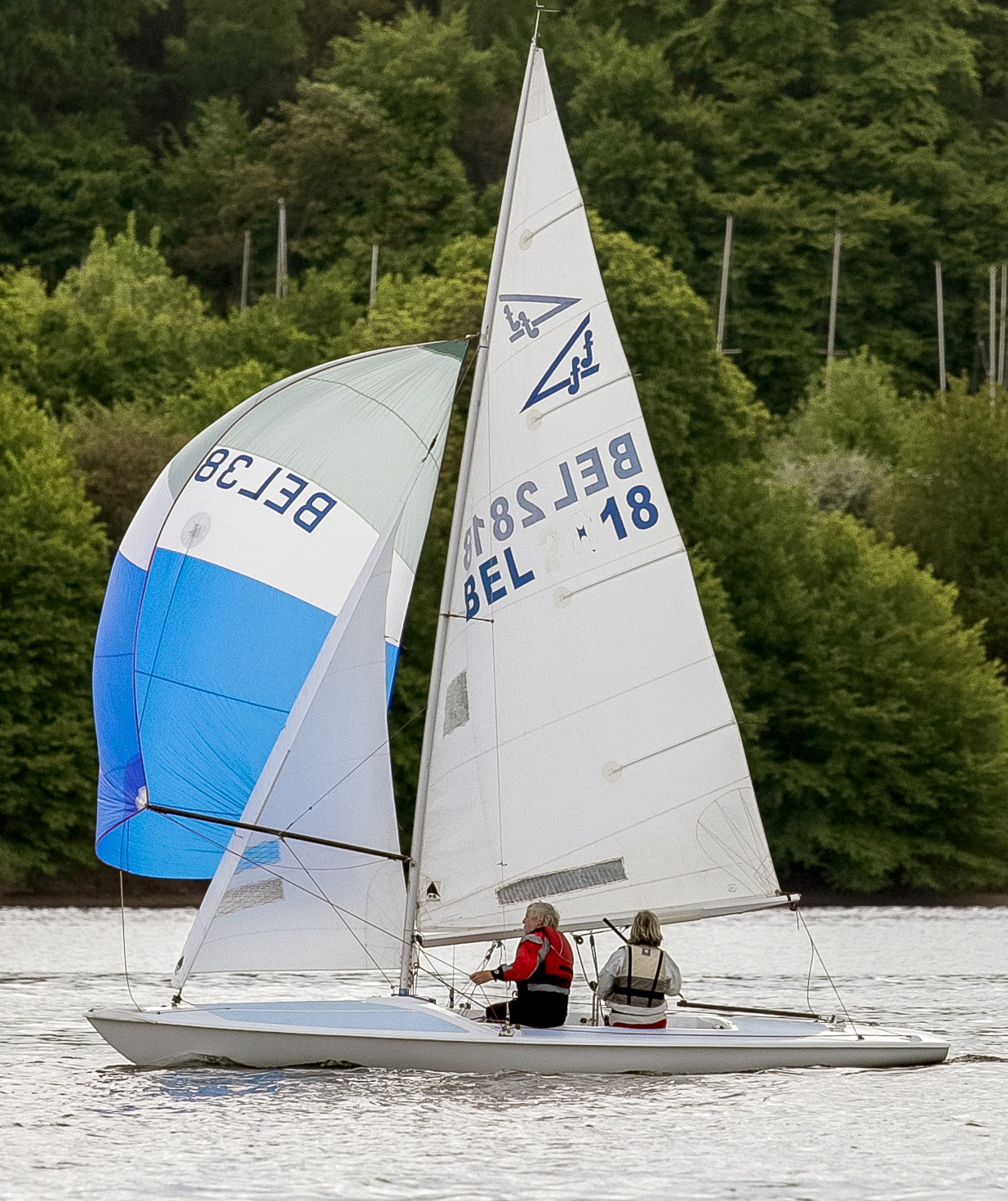 17052015_f15_Trophee_Ch_Bertels_1er_Manche_34 Flying Fifteen sailboats at the 2015 Trophée Charles Bertels (Charles Bertels Trophy) in Belgium.